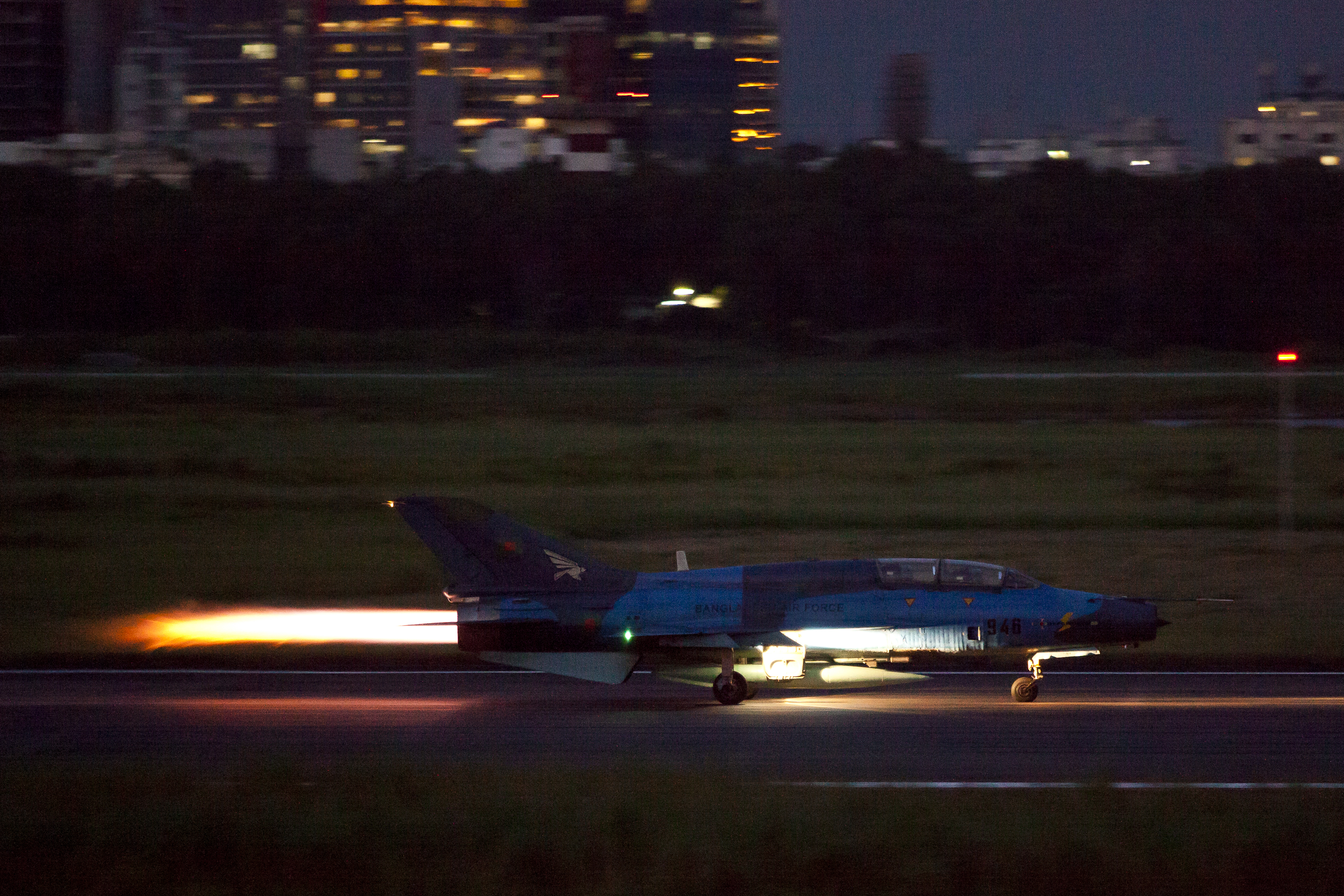 Bangladesh Airforce F-7 running for take off from Dhaka Airport